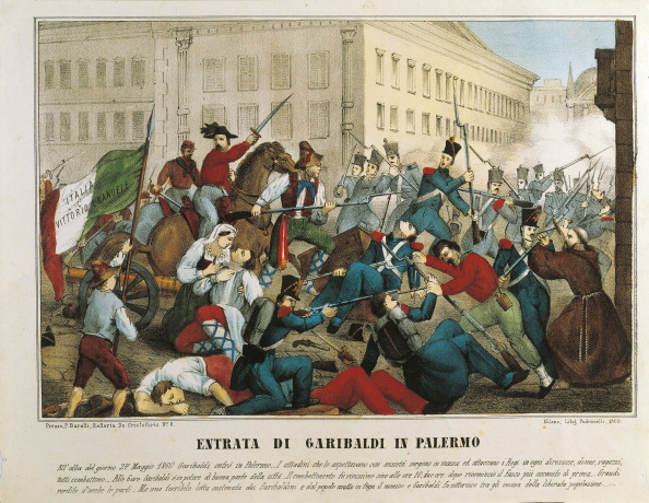 Credit: Giuseppe Garibaldi entering Palermo, 27 May 1860 / De Agostini Picture Library / A. Dagli Orti / The Bridgeman Art Library DGA 503576 Image number: Giuseppe Garibaldi entering Palermo, 27 May 1860 Title: De Agostini Picture Library / A. Dagli Orti Credit: Italy - 19th century - Giuseppe Garibaldi entering Palermo, 27 May 1860. Artwork-location: Brescia, Museo Civico Del Risorgimento (Historical Museum) Description: Horizontal